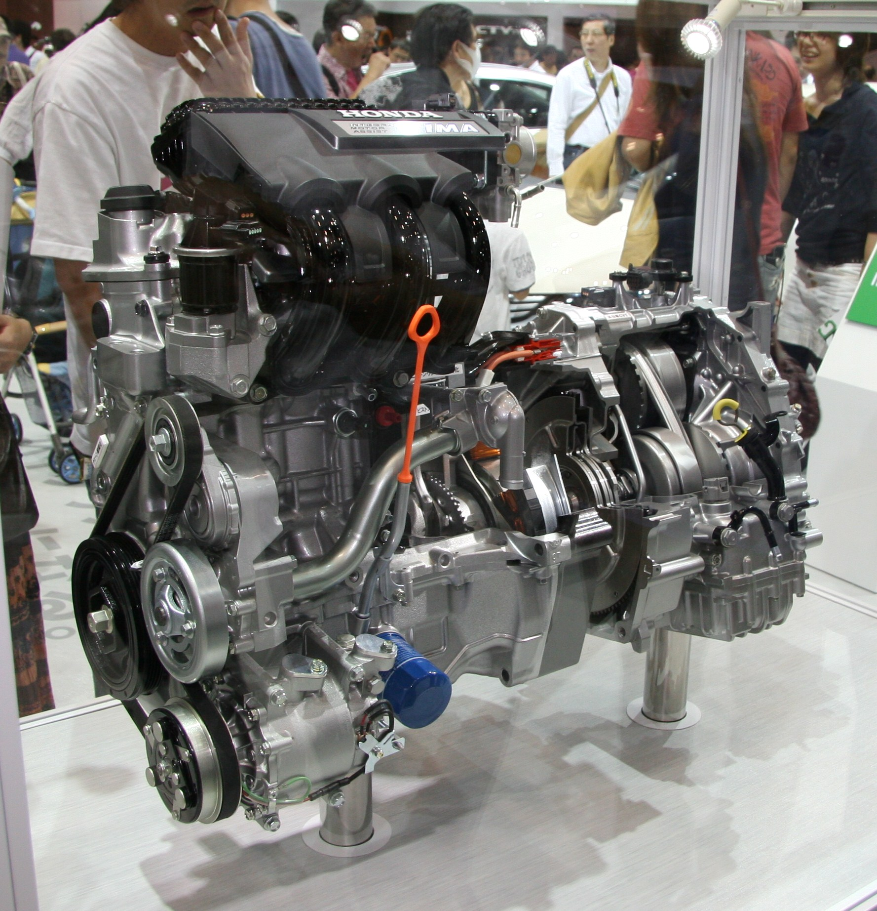 Honda insight (LDA engine and MF6 motor)